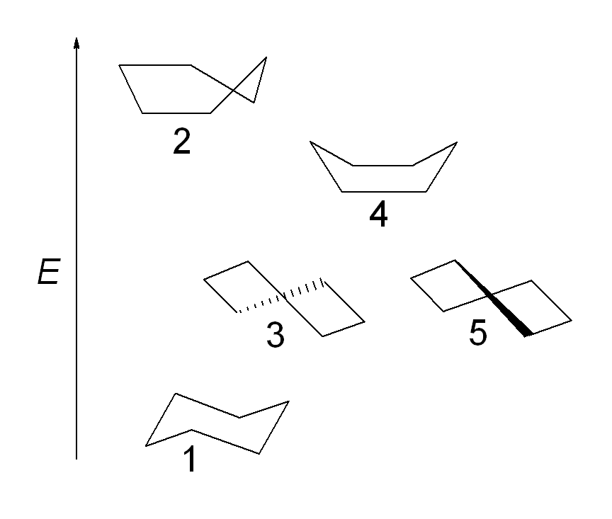 conformations of cyclohexane